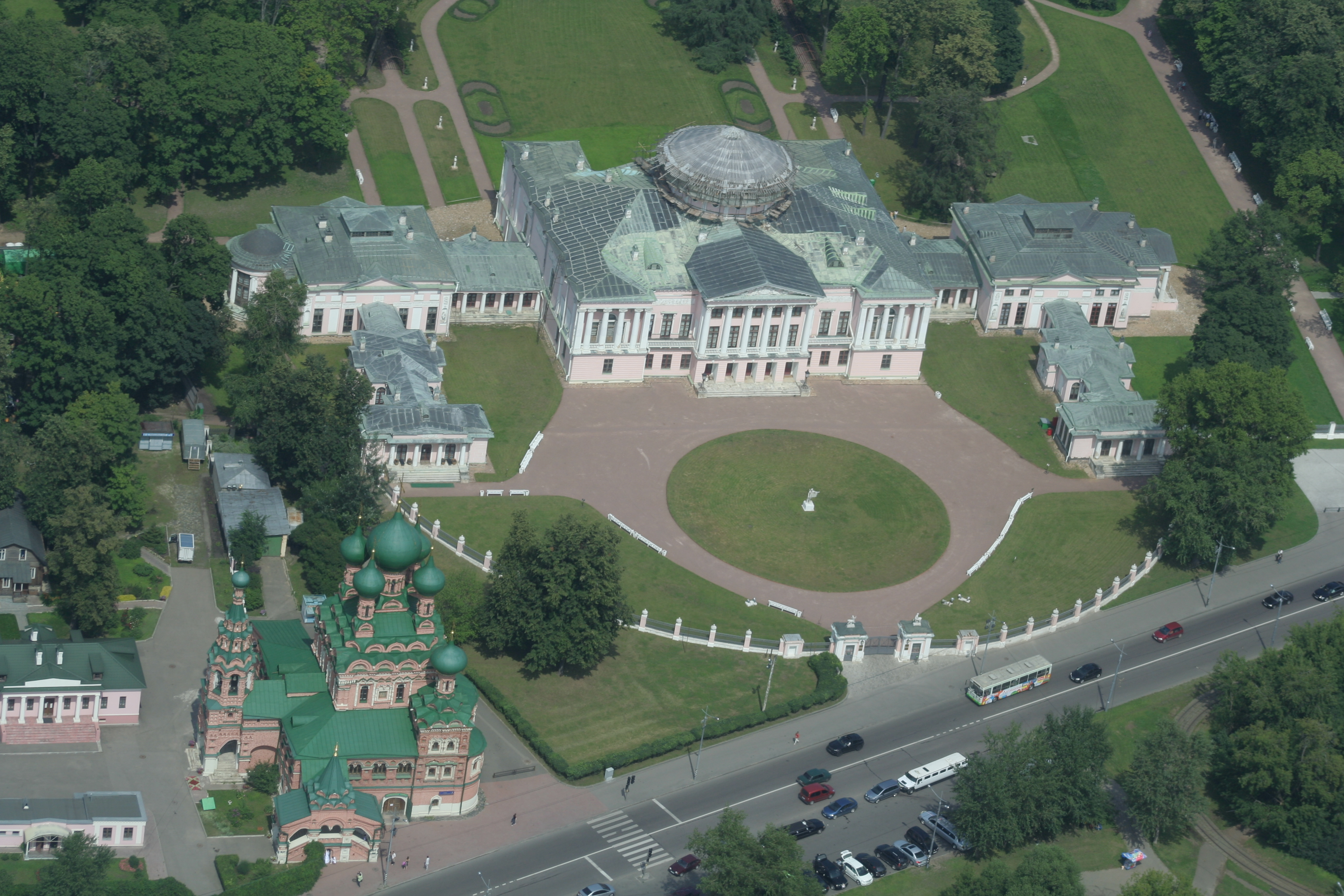 Views from the observation deck of the Ostankino Tower, Moscow